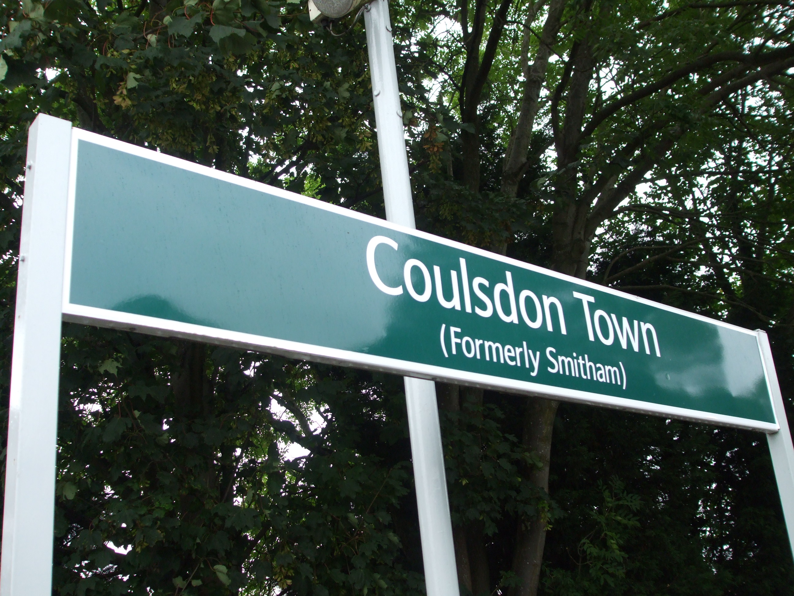 Coulsdon Town station signage, renamed from the original Smitham in May 2011